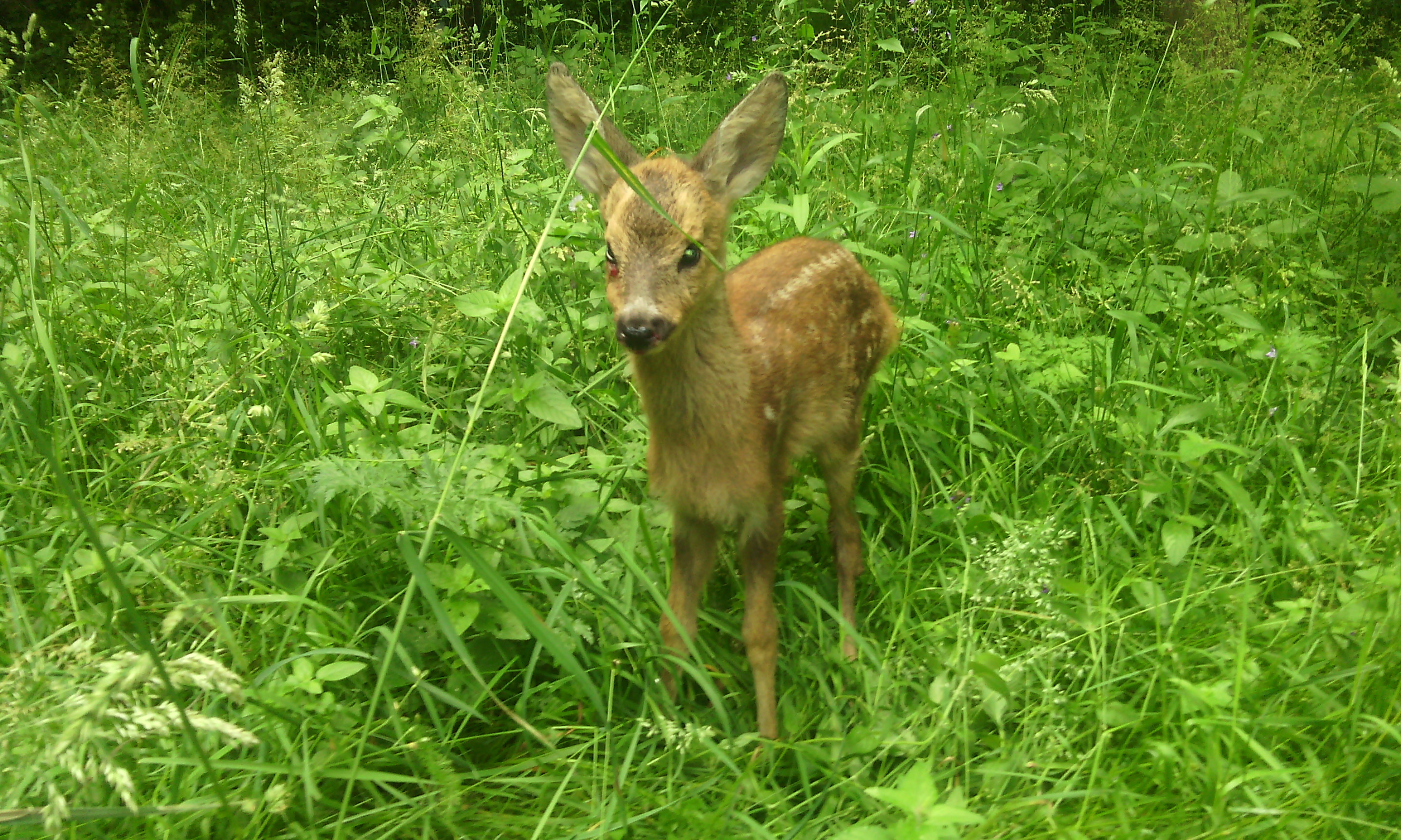 Capreolus capreolus